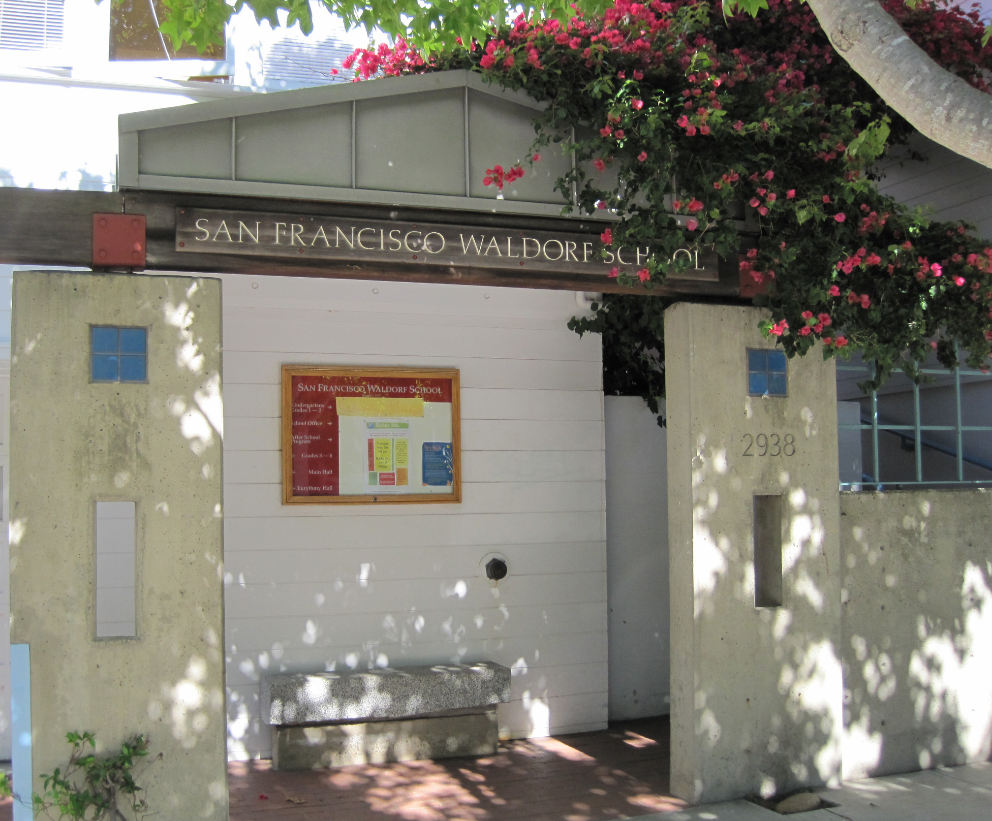 Facade of the SFWS Grade School campus.